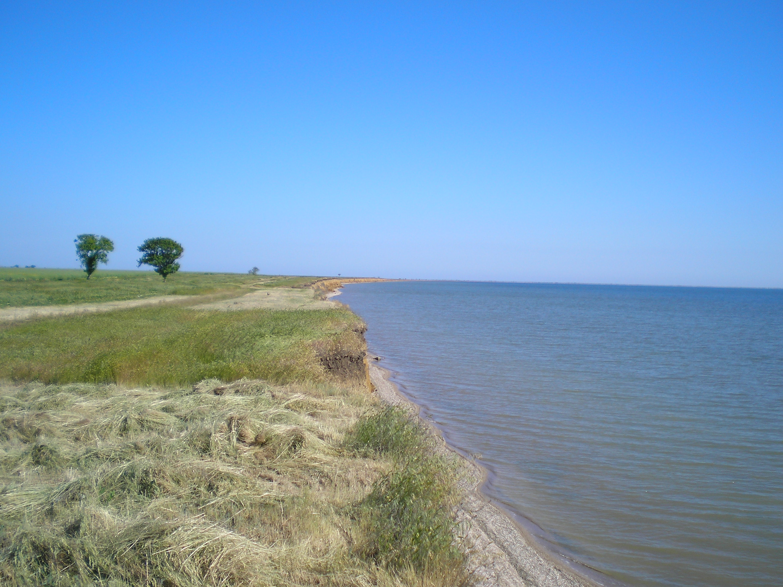 The Northern coast of the Alibey Lagoon, south-western Ukraine